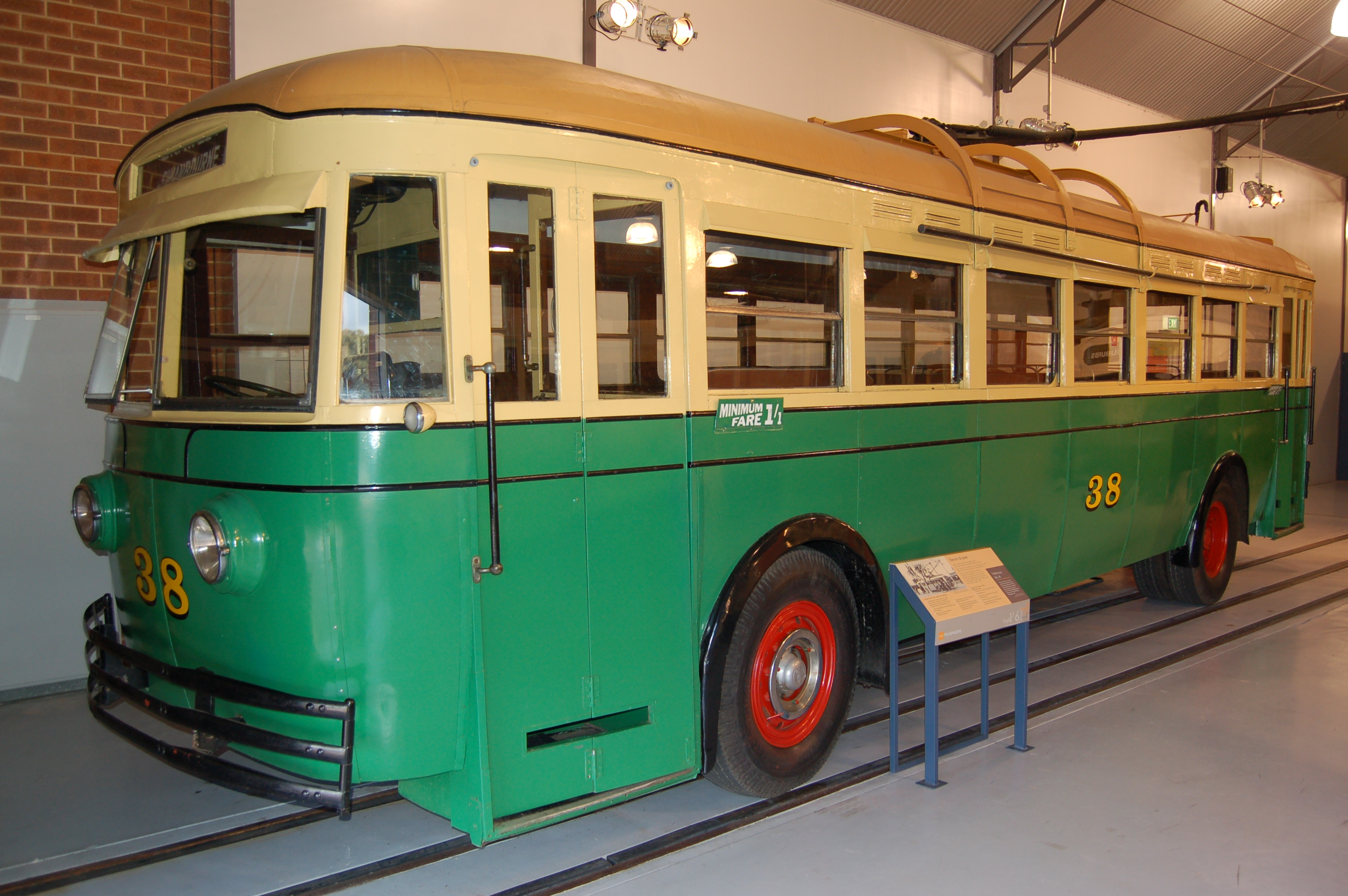 A front three-quarter view of preserved trolleybus number 38 at Revolutions, Whiteman Park, Western Australia. No. 38 is a Leyland model TB 5 trolleybus.